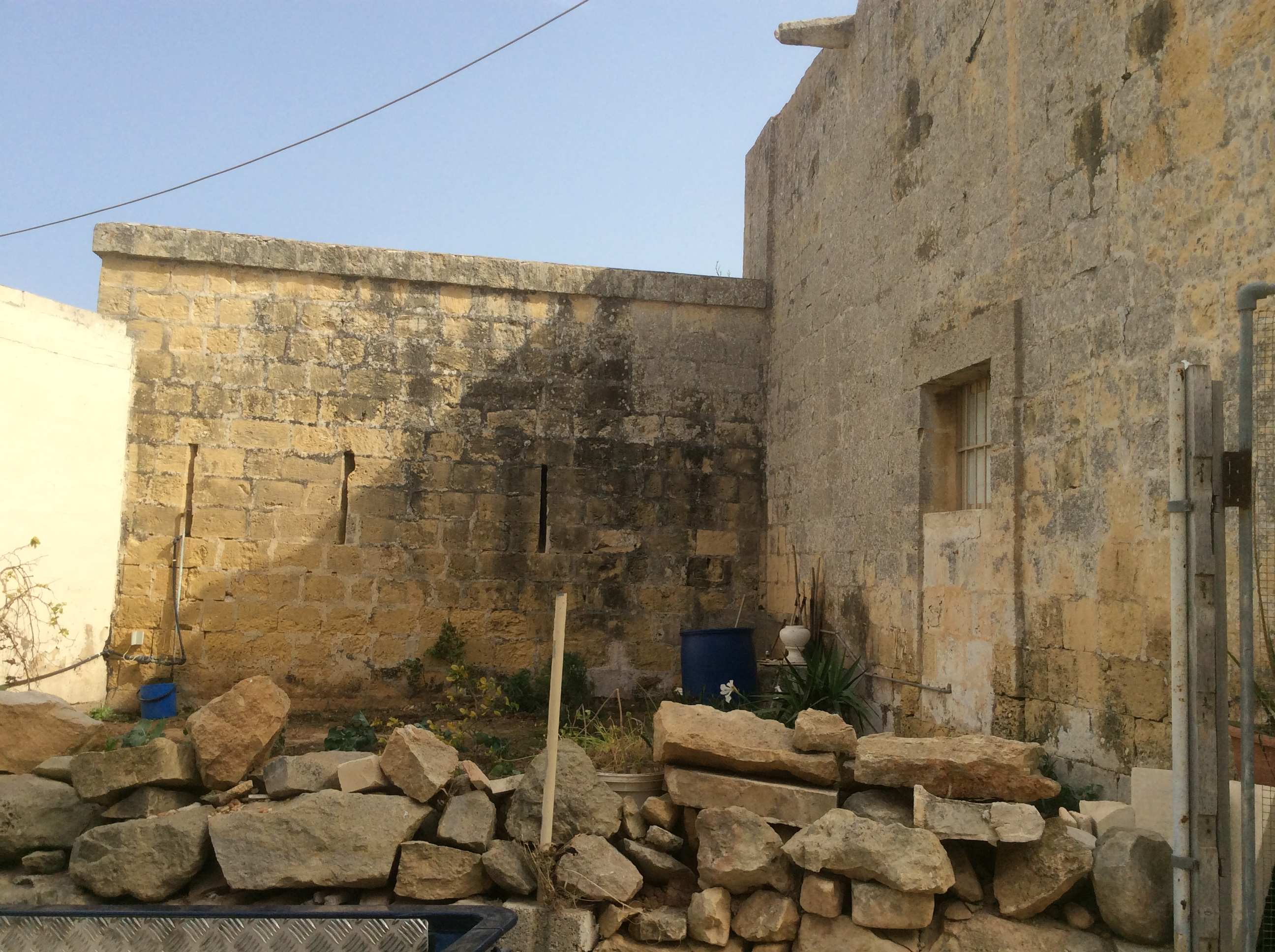 Saint George Redoubt Firing posts